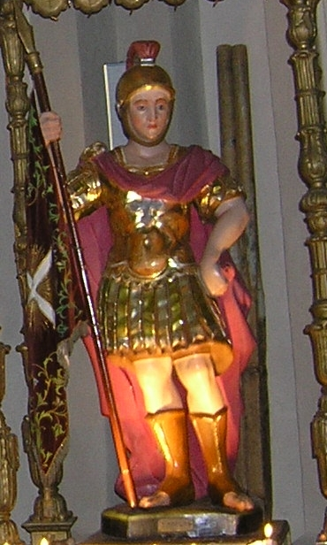 Statue of Saint Magnus in his sanctuary at Castelmagno (Italy)